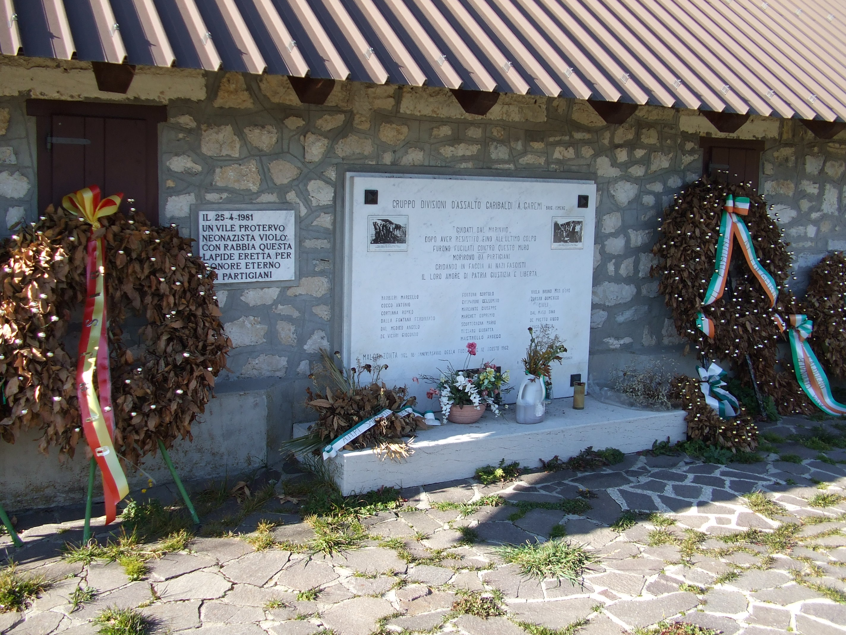 Malga Zonta, Trentino, Northern Italy: the tablet in memory of the partisans executed by the Germans in August 1944